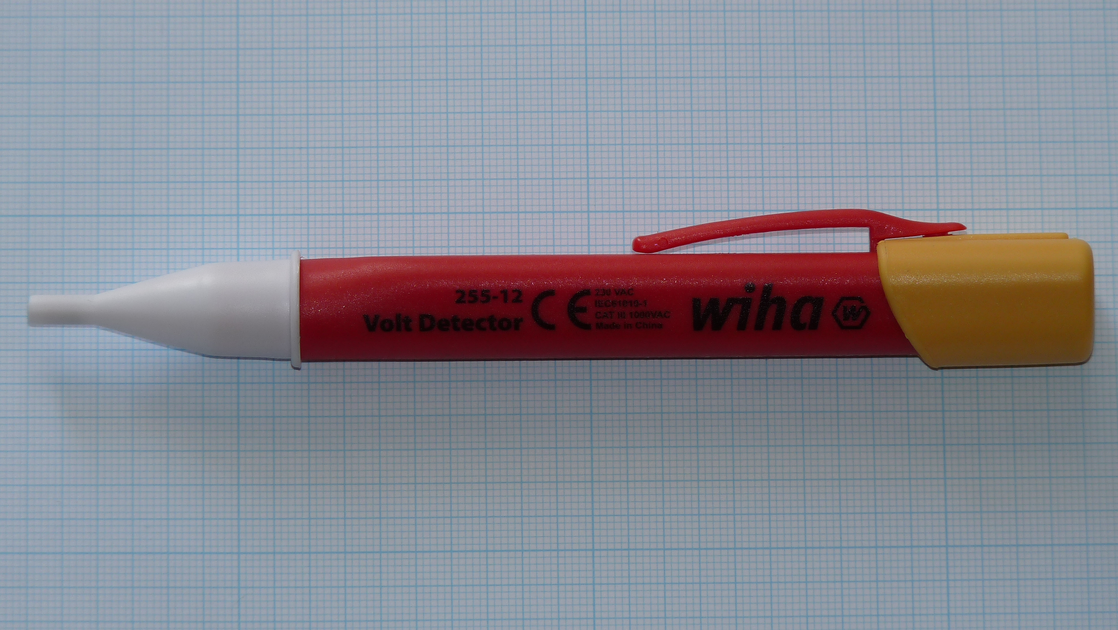 Wireless voltage probe